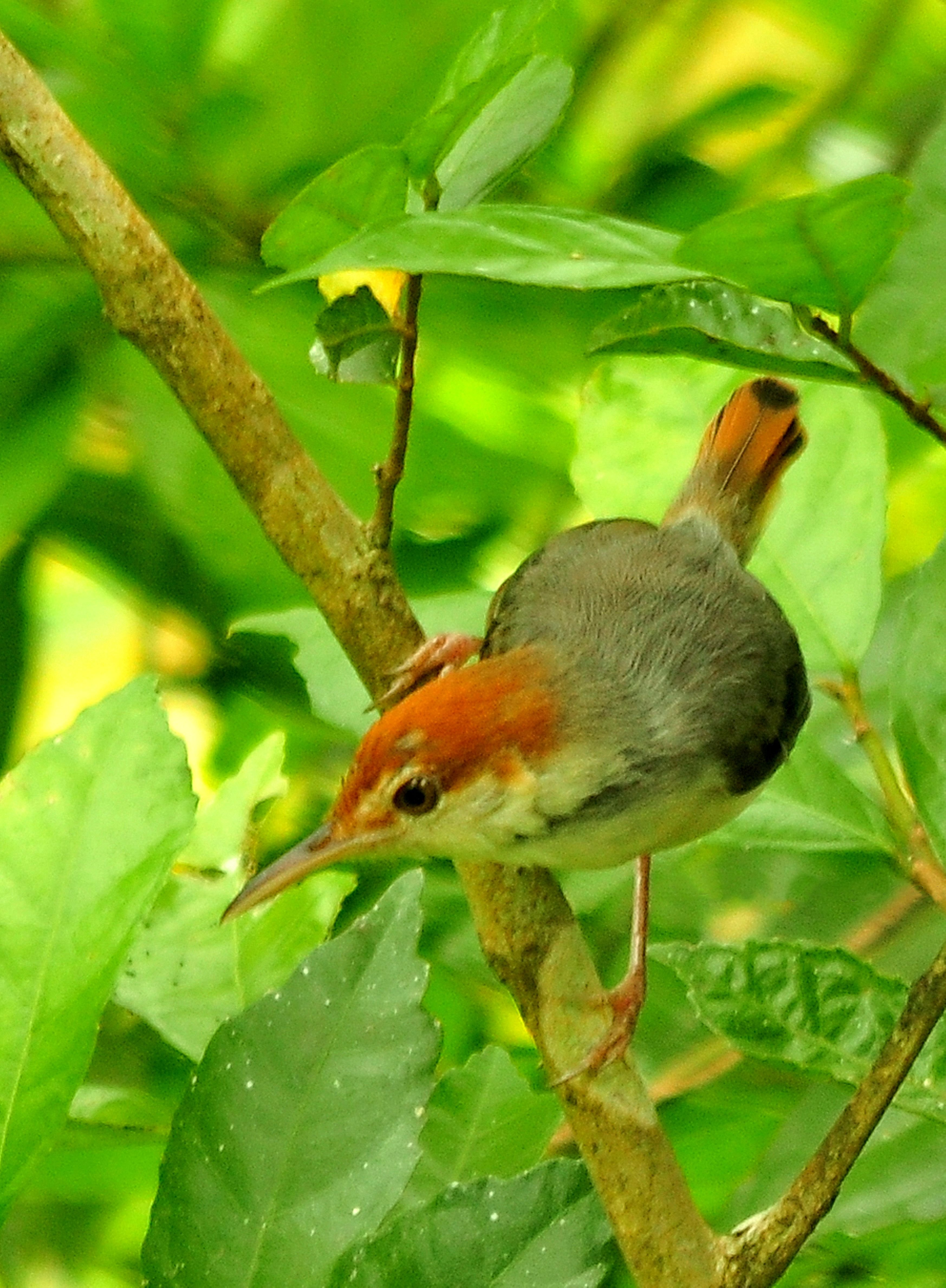 hunting for small insects and larvae under the "Inyam" tree